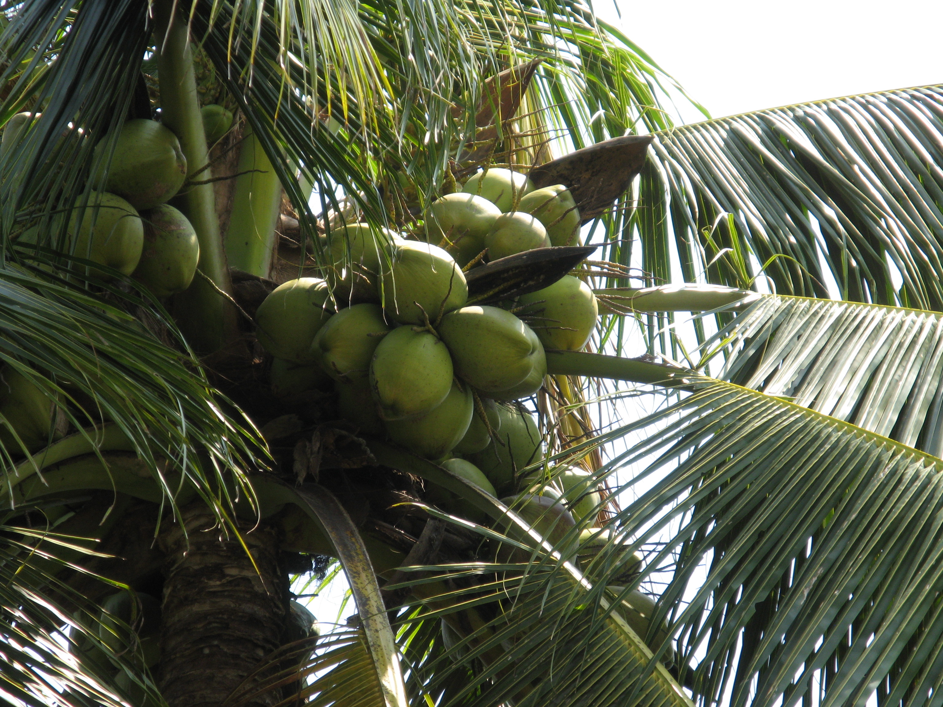 Green coconuts